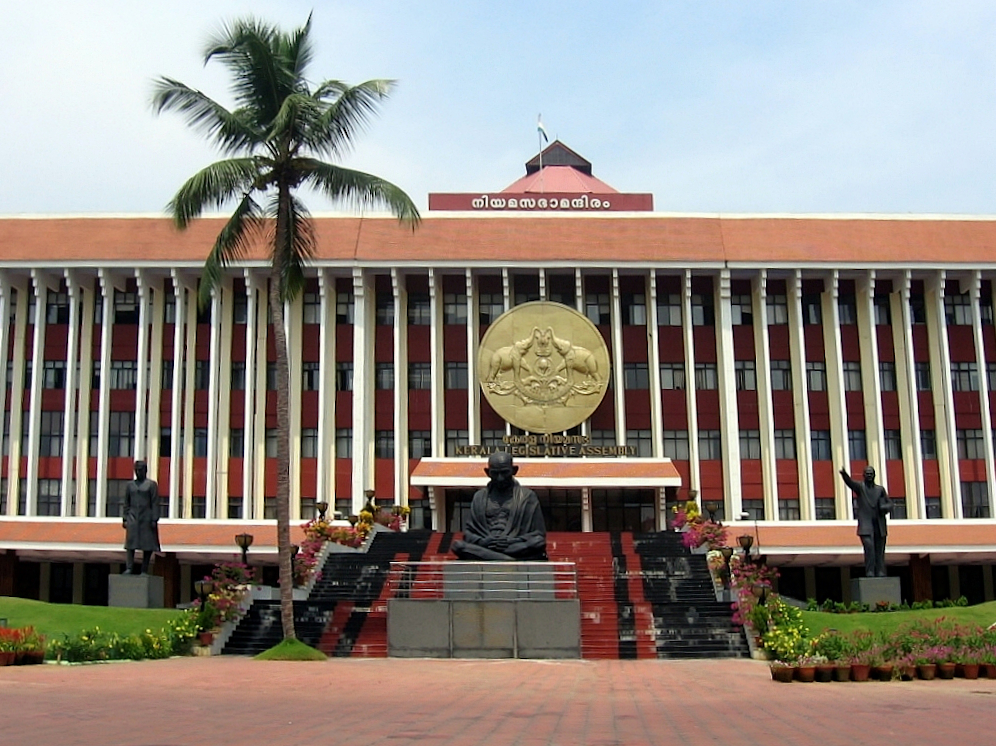 Kerala Legislative Assembly, Thiruvananthapuram. In front of the assembly there are three Statues of national leader - Ambedkar (R), Nehru (L) and Gandhi (C). Summary photographer : Rajith Mohan